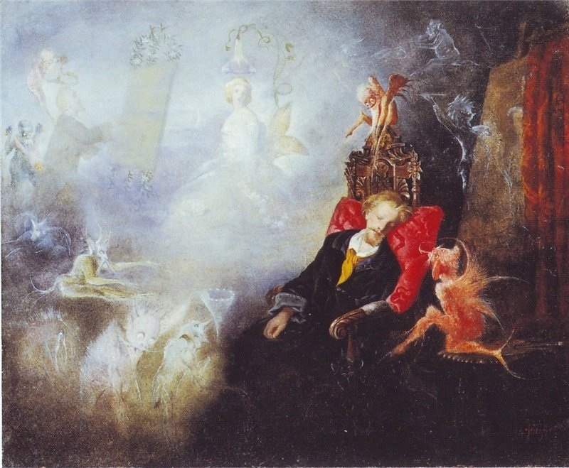 The artists dream